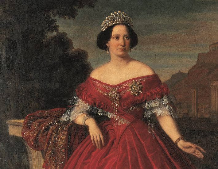 Amalia of Oldenburg, queen of Greece, in an official portrait